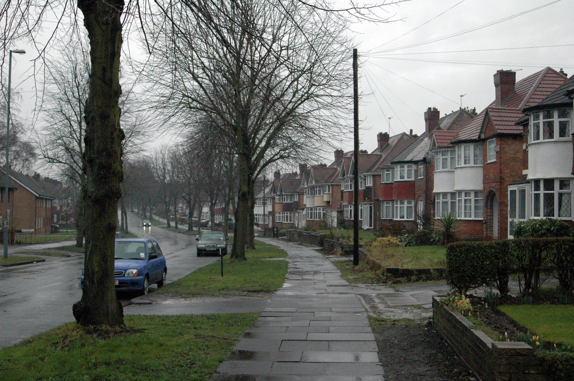 Created by Erebus555. This is an image of a row of semi-detached houses in the Hall Green suburb of Birmingham.